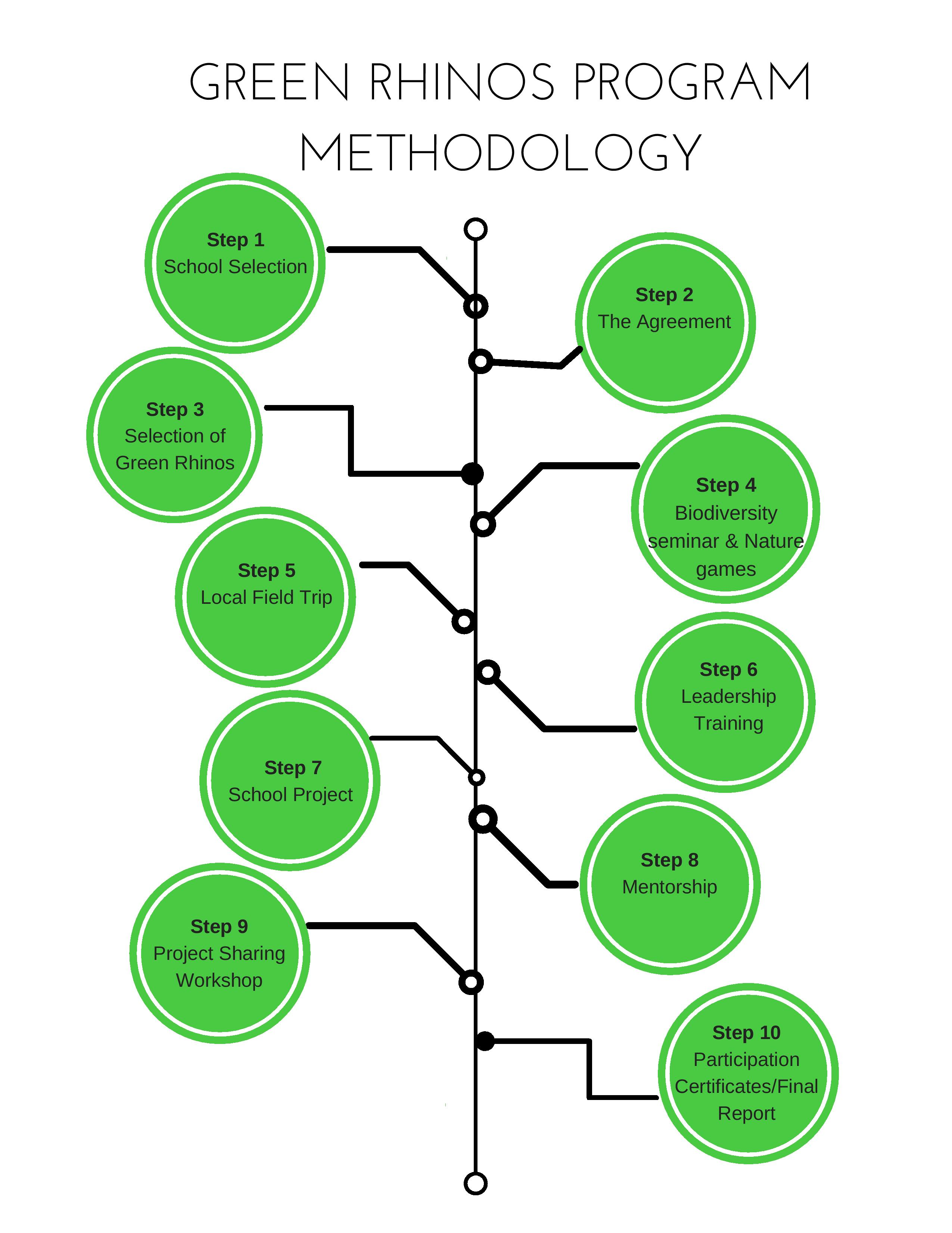 methodology